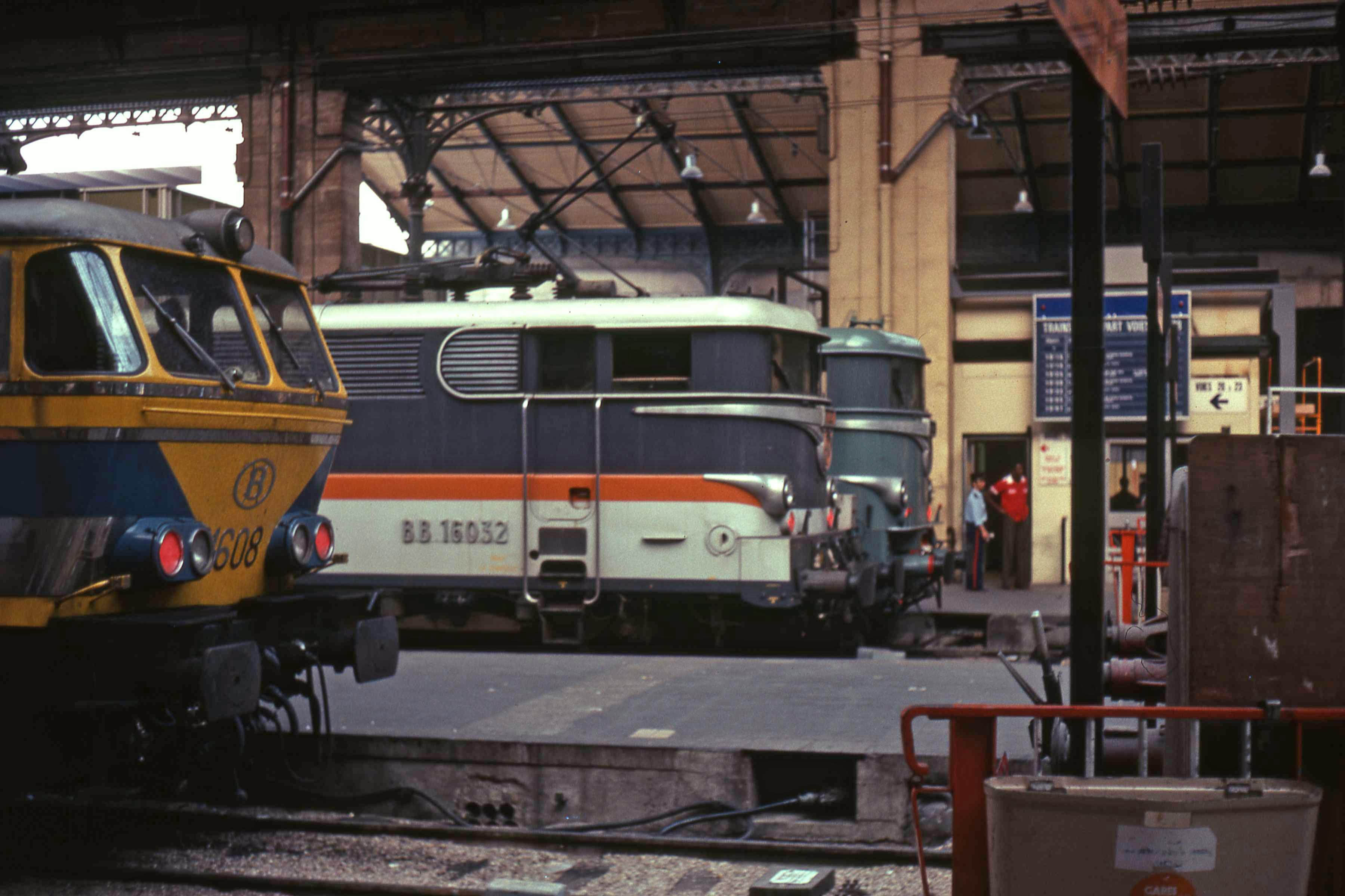 Belgian SNCB loc 1608 in Paris Nord in 1979. This is before the high speed lines. Notice the border customs in the background.